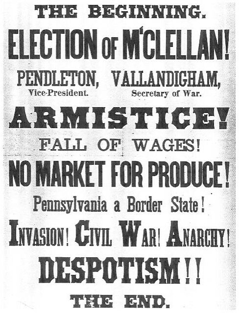 1864 US election poster, postulating the negative consequences that would ensue from a Democratic Party presidential victory. Clement Vallandigham was regarded by fervent Unionists as little better than an open traitor.